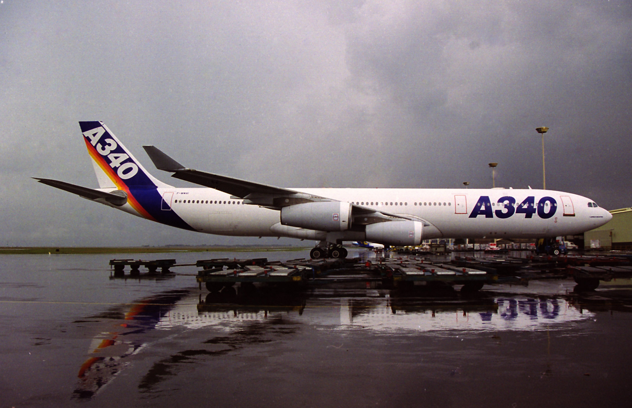 Airbus A340-311 F-WWAI